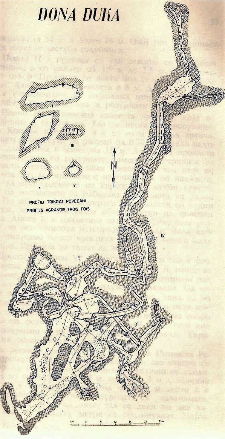 Plan of the Dona Duka cave near Rashce, Macedonia